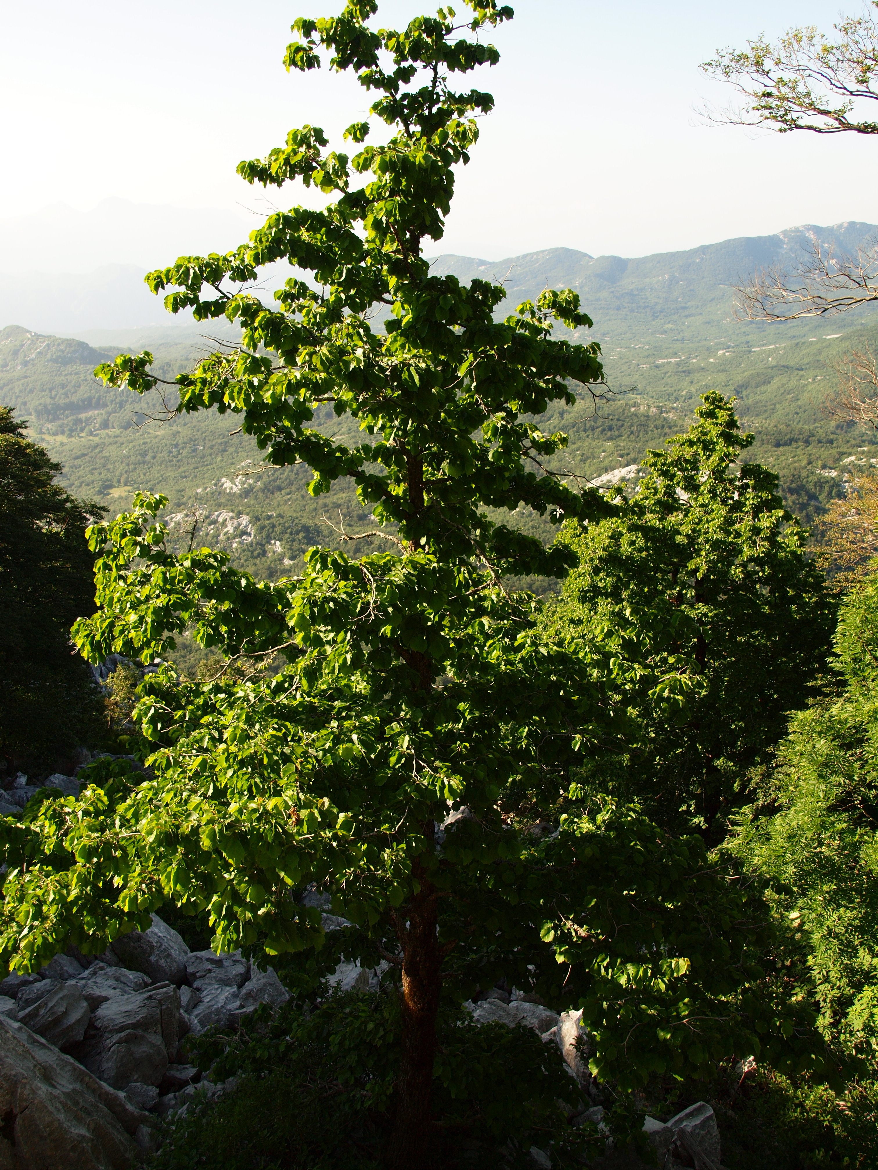 Corylus colurna subadriatic dinaric mountains Orjen